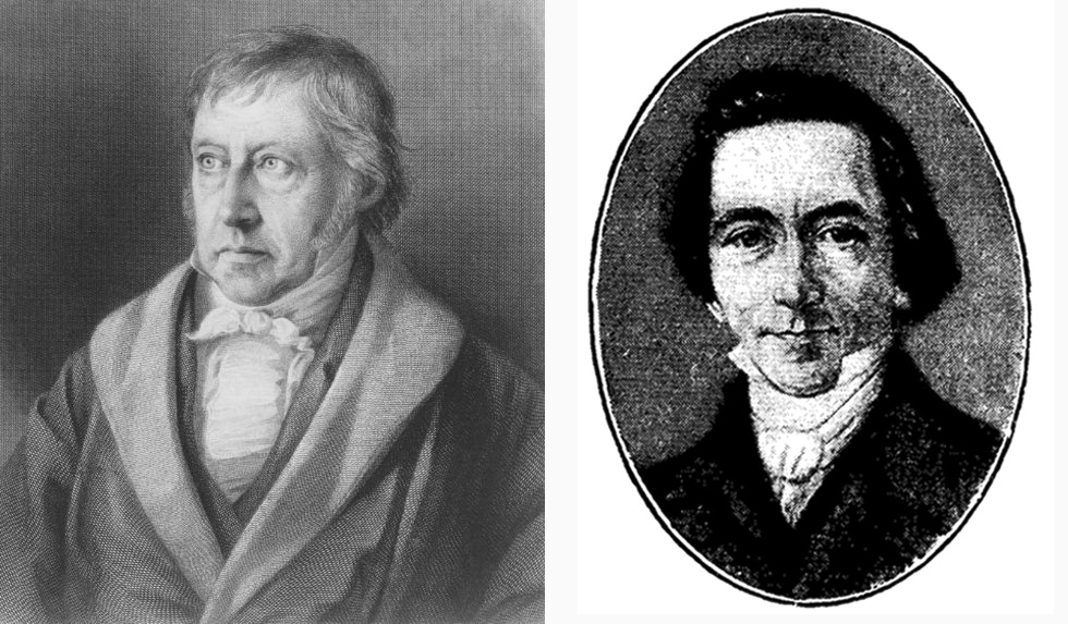 Friedrich Julius Stahl (German conservative jurist and philosopher of law; 19th cenutry)